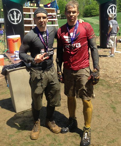 OCR Kings - Two veteran extreme athletes attempt to dominate in the world of Obstacle Course Racing by recreating the grueling challenges and obstacles of actual OCR's and developing the best methods of conquering them.